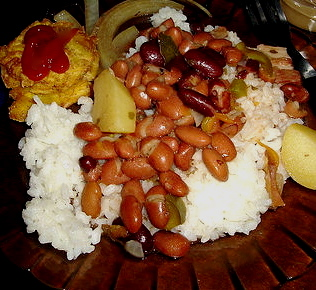 The Peurto Rican food "Cocina Criolla" can be traced back to African, Amerindian and Spanish inhabitants of the island